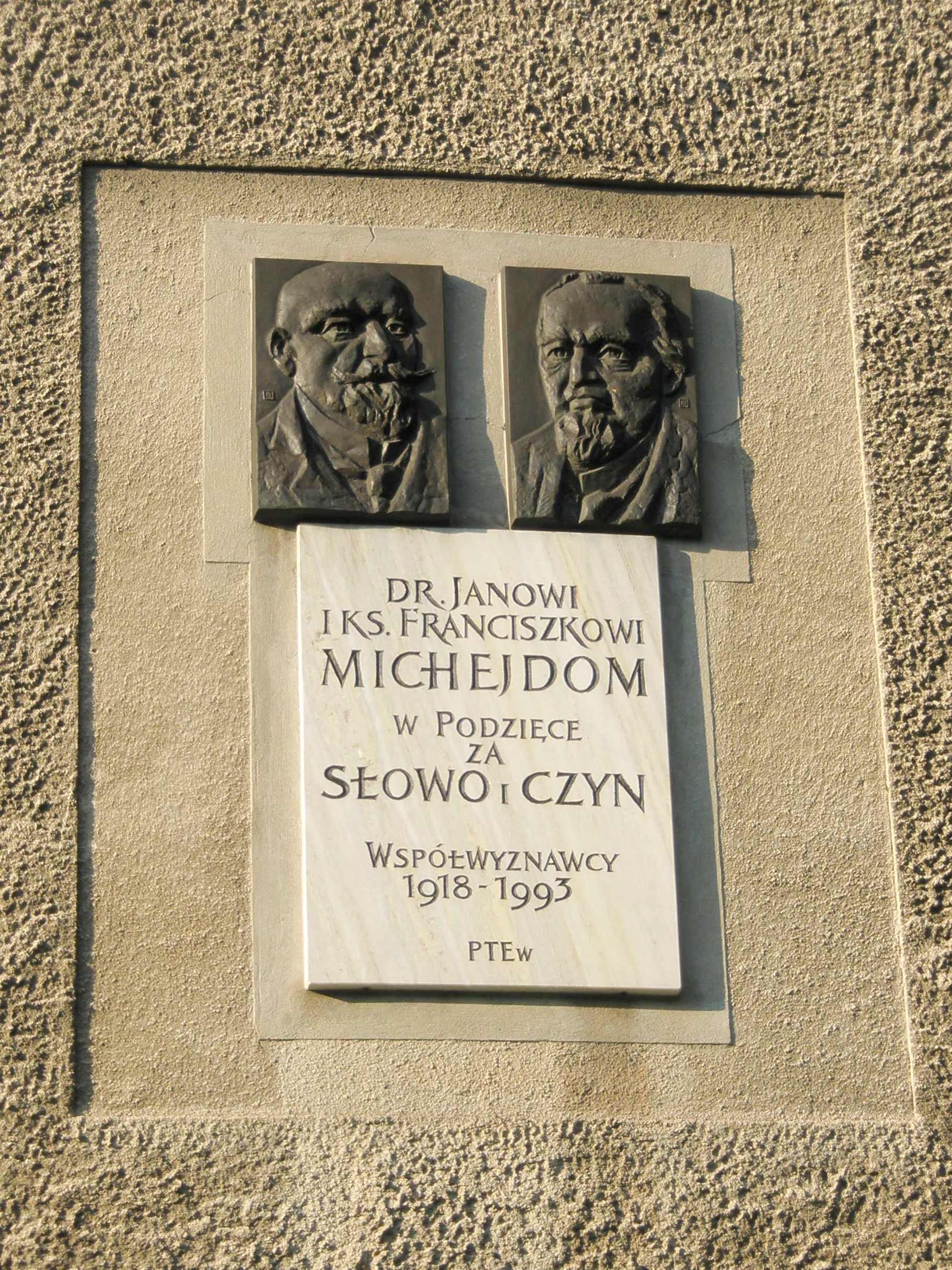 The plaque of brothers Jan Michejda and Franciszek Michajda on the wall of the former Lutheran school in Cieszyn.